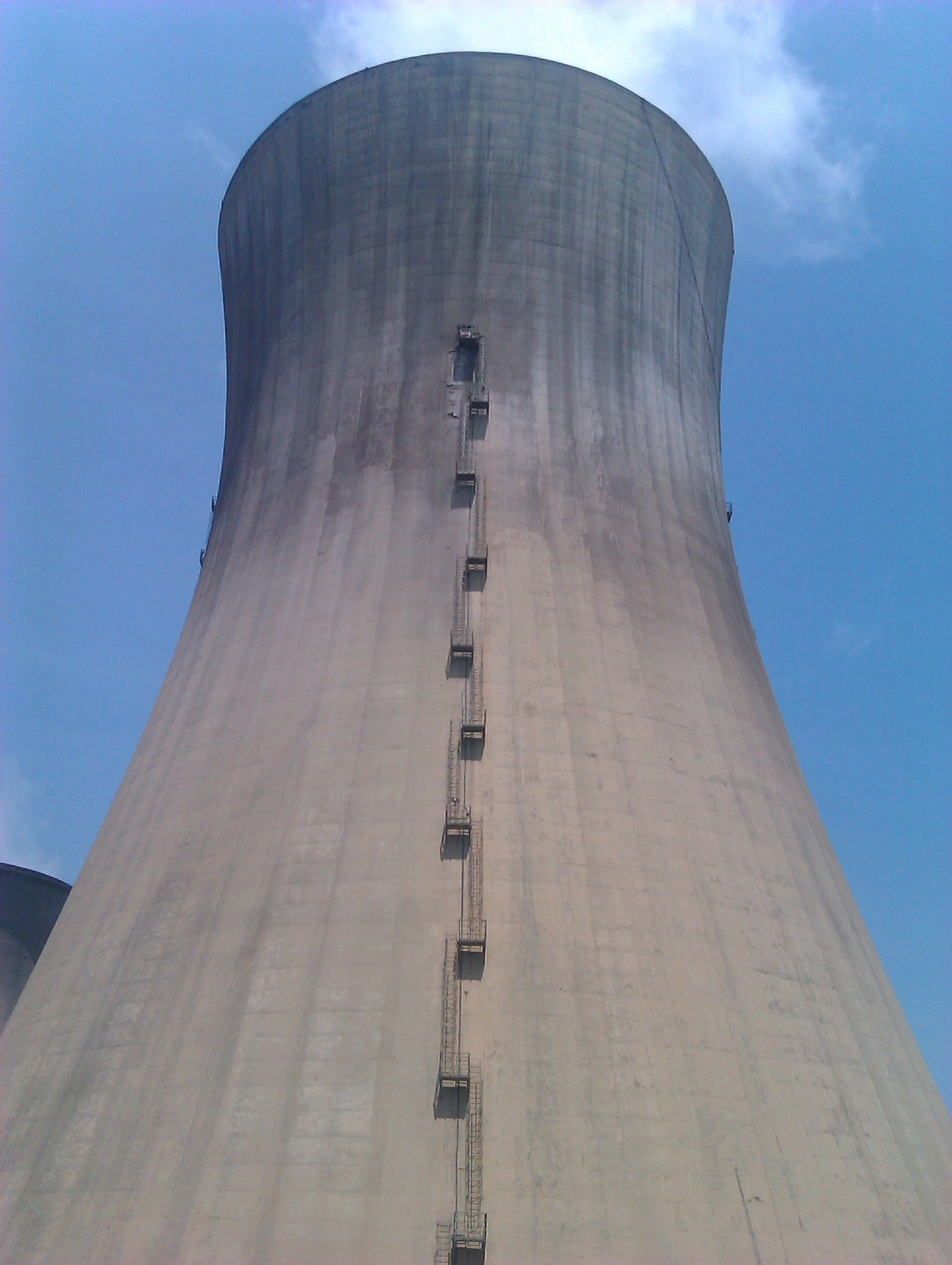 Cooling tower at thermal power plant!